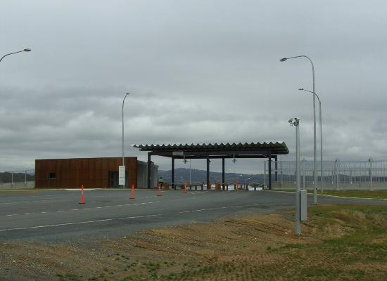 Main access gate for Headquarters Joint Operations Command